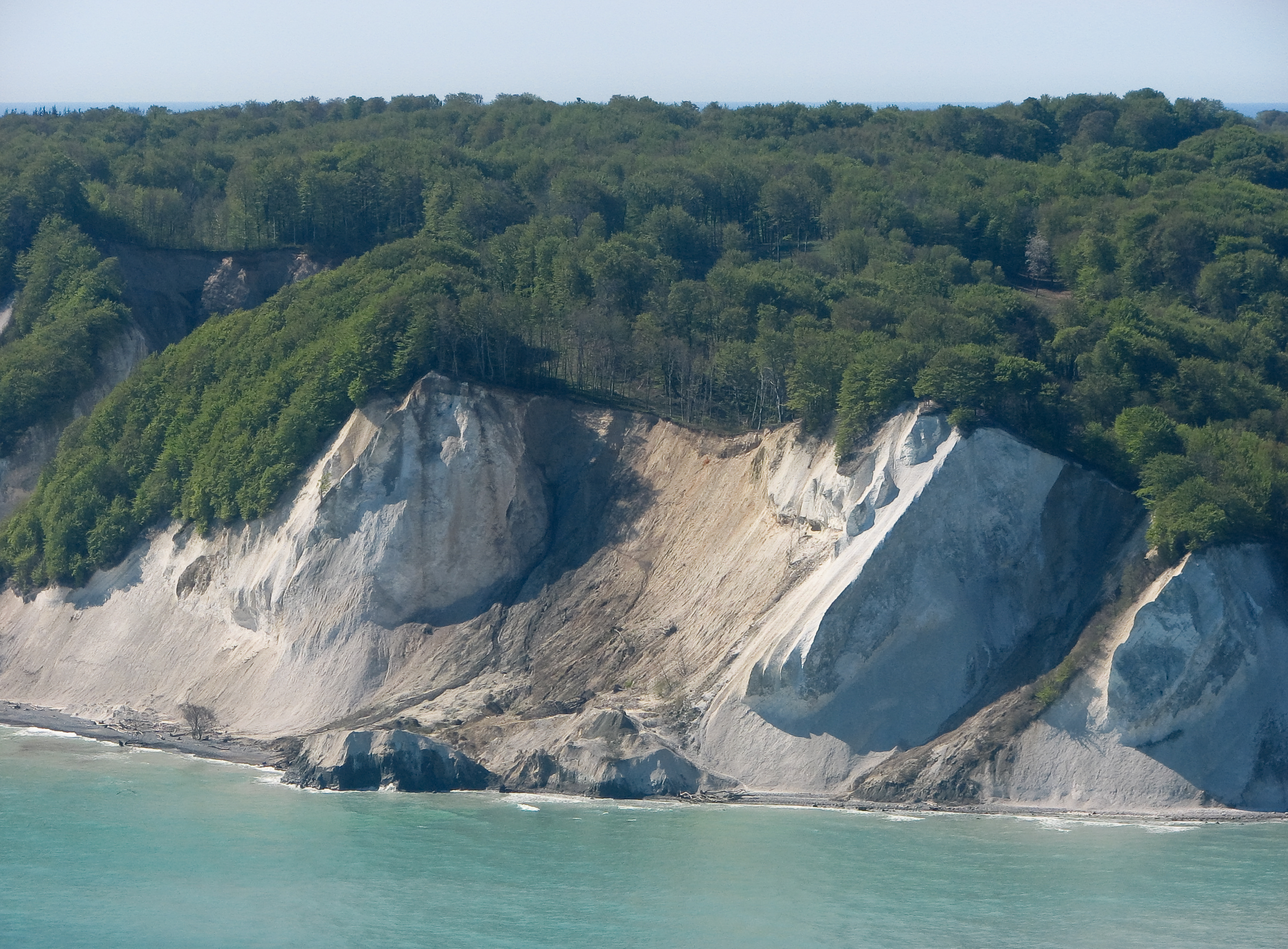 Store Taler Fald ("Great Speaker Fall"), a part of Møns Klint (the Cliffs of Møn) in Denmark.